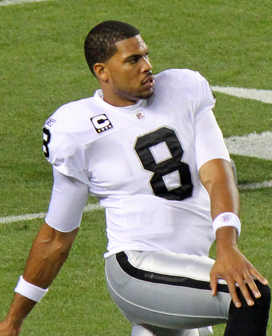 Jason Campbell, a player on the National Football League.